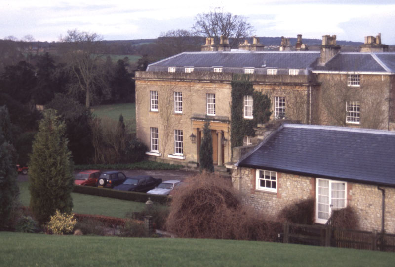 Bishopstrow House. The present Bishopstrow House was built in 1817 to a design by John Pinch and was owned by the Temple family until well into the 20th century. It was turned into a luxury hotel in 1977.